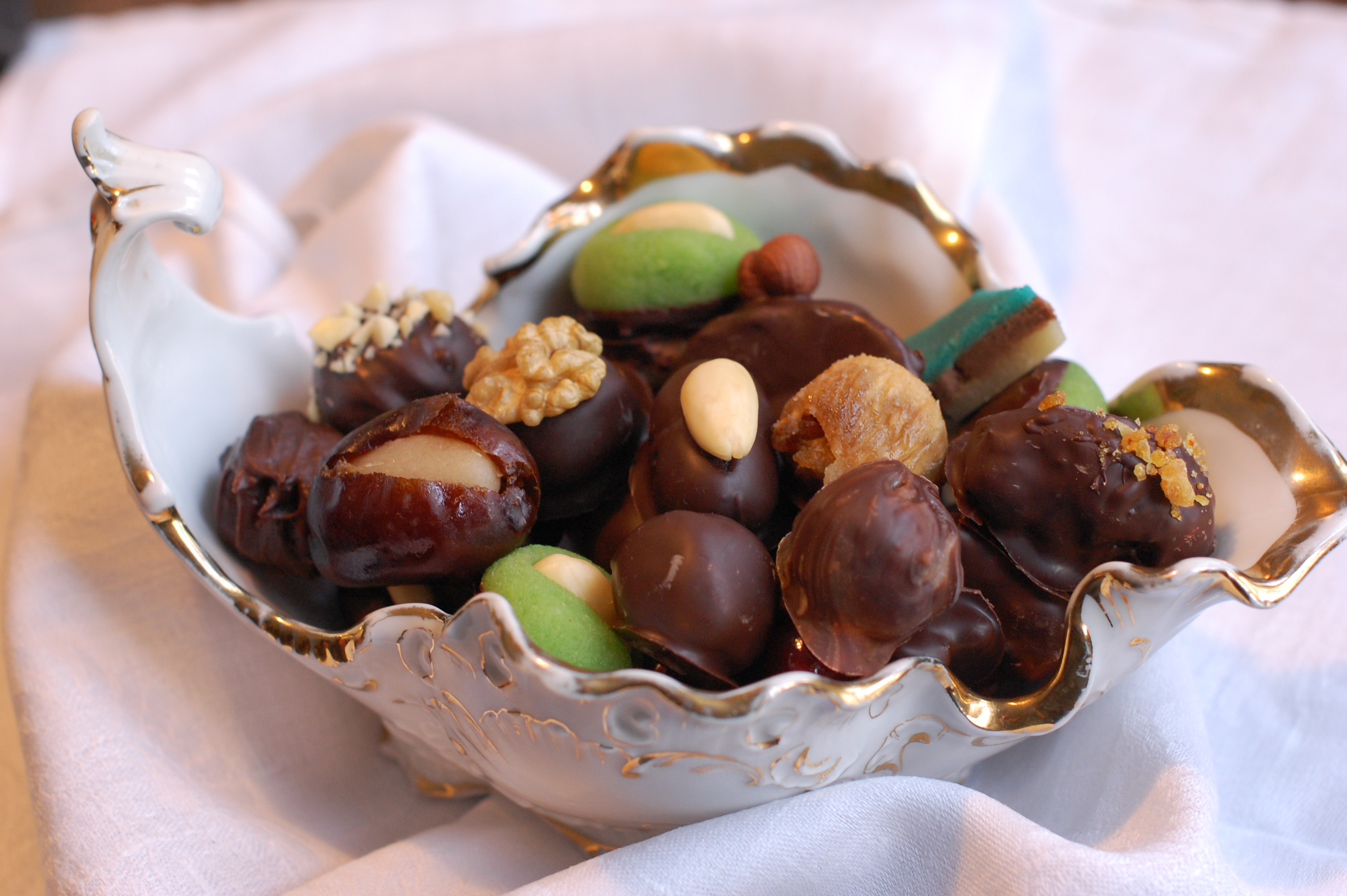 Handmade marzipan flavoured with spirits such as rum, cognac, whisky etc. Divided into small bite-sized pieces and enrobed in chocolate to prevent the alcohol from evaporating and the marzipan to dry out. Some are finished of with a topping.